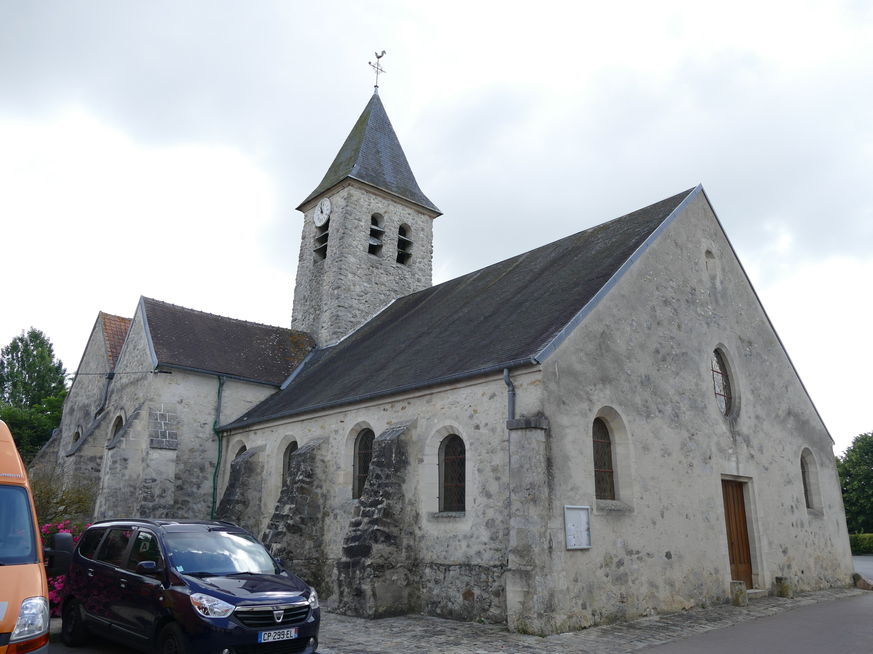 Saint-Médéric's church in Péroy-les-Gombries (Oise, Picardie, France).